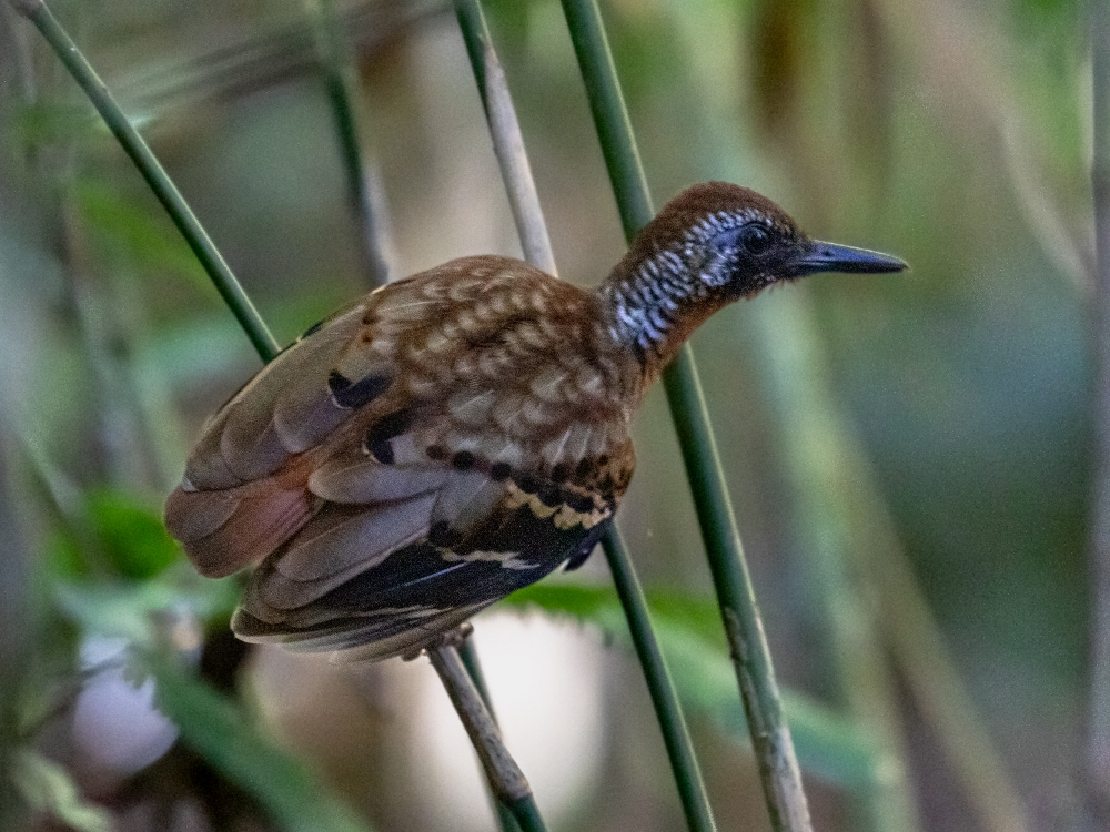 Wing-banded Antbird (male)), Carajas National Forest, Pará, Brazil